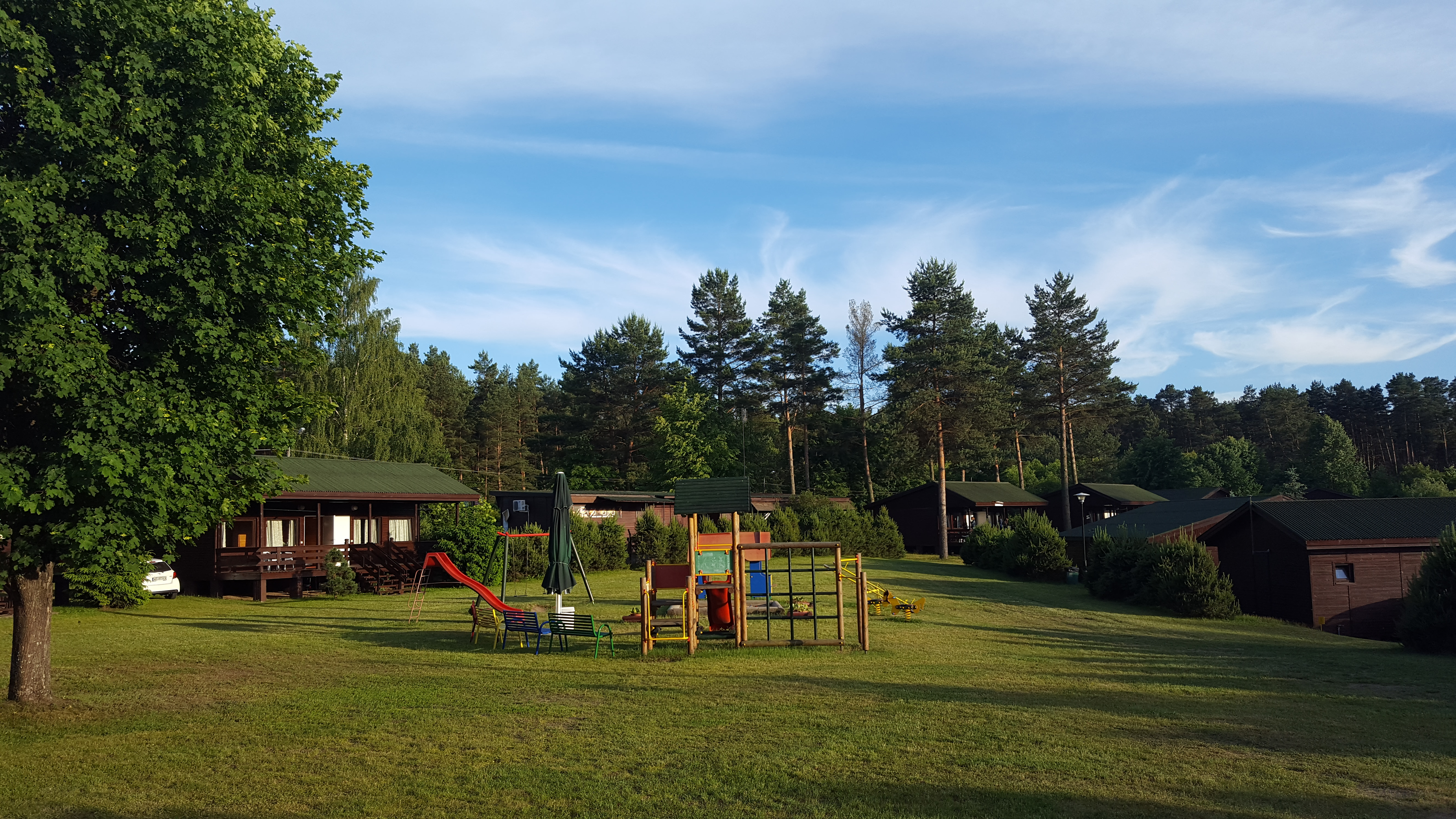 playground